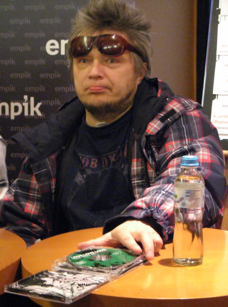 Zygmunt "Muniek" Staszczyk - Polish vocalist of T.Love band